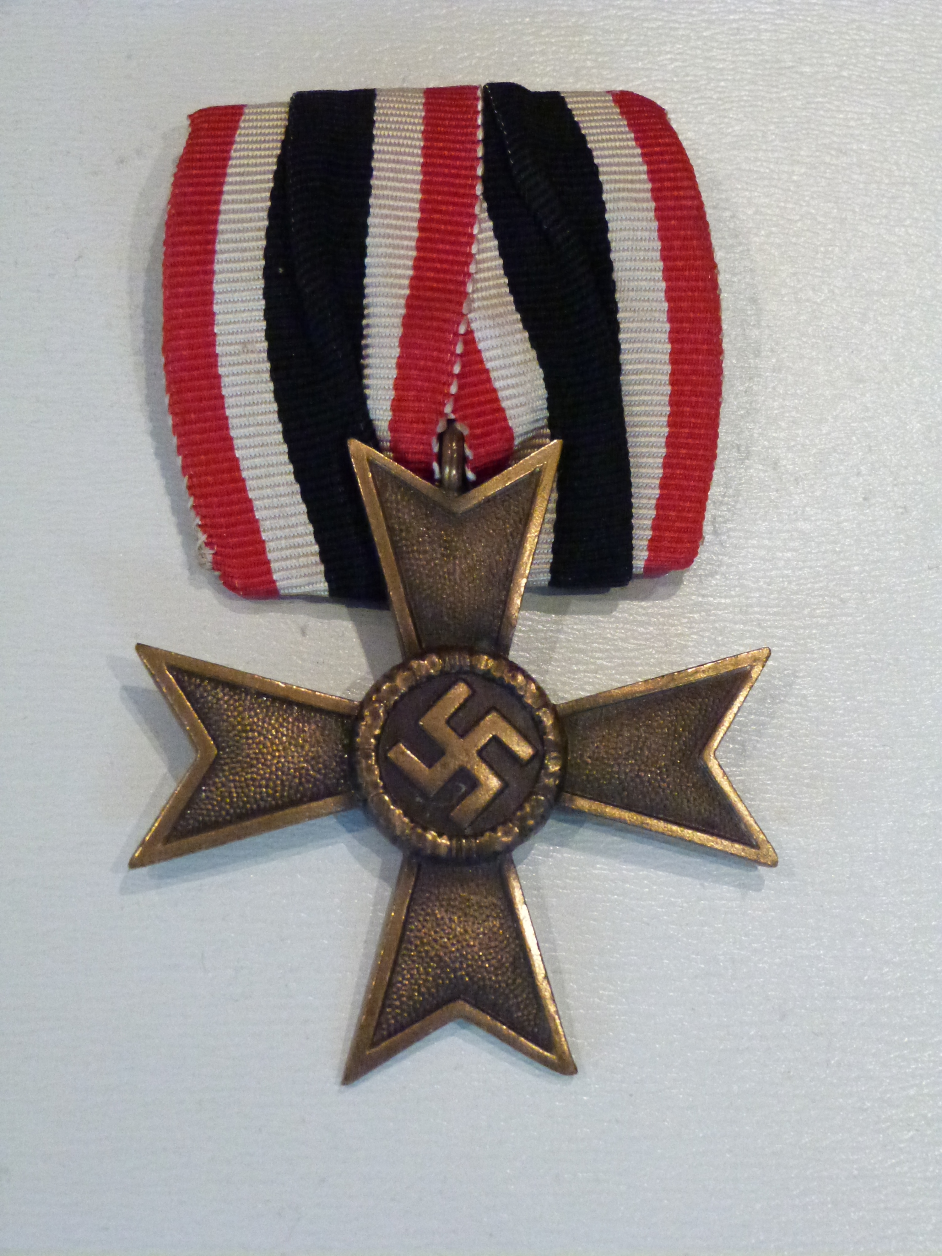 War Merit Cross 2nd Class, awarded to Hans Kohout by Eric Roberts in 1946. Found among Kohout's possessions by his son Ernest after his death.